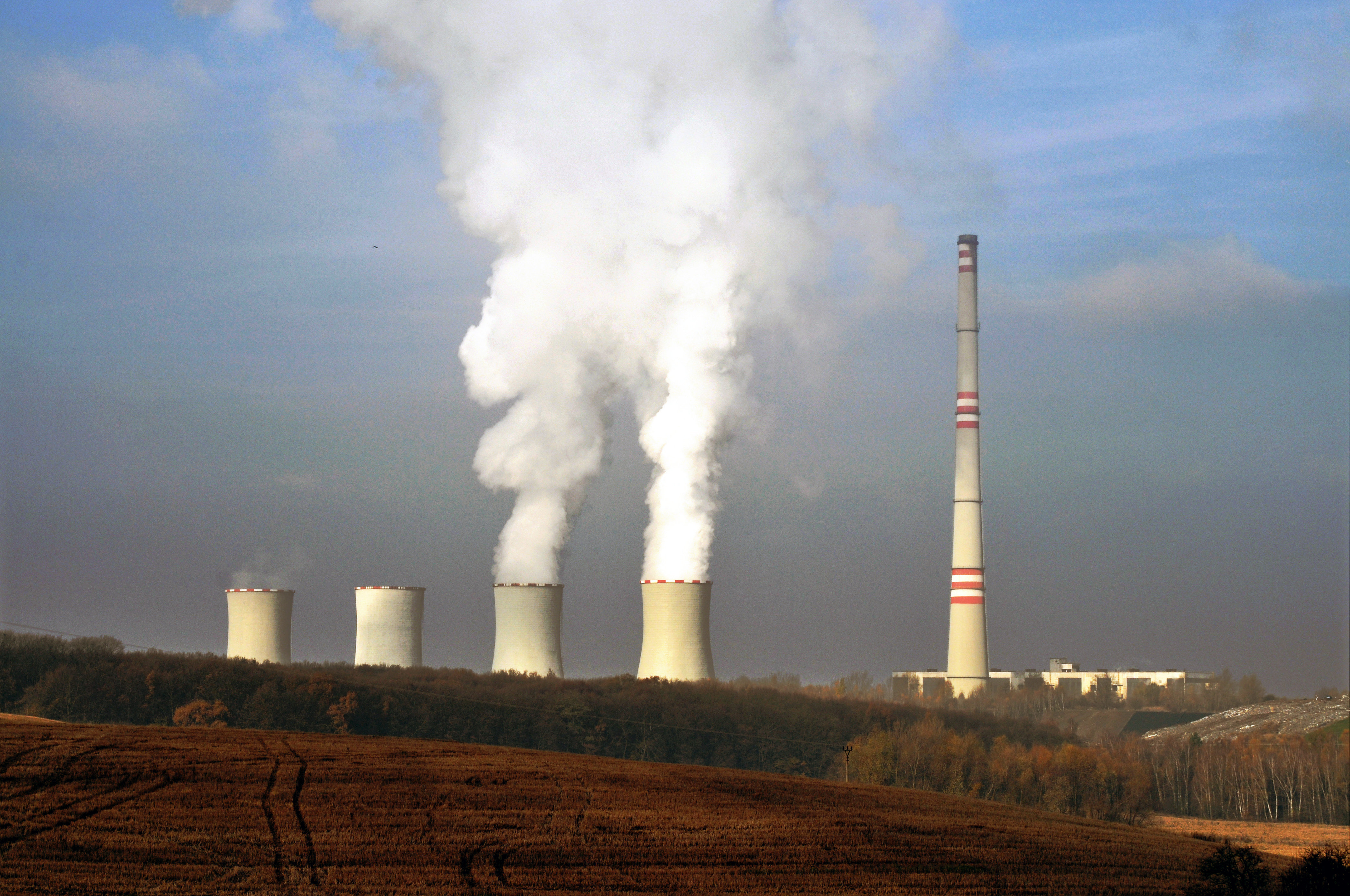 Coal-fired power plant in Chvaletice, Czech Republic